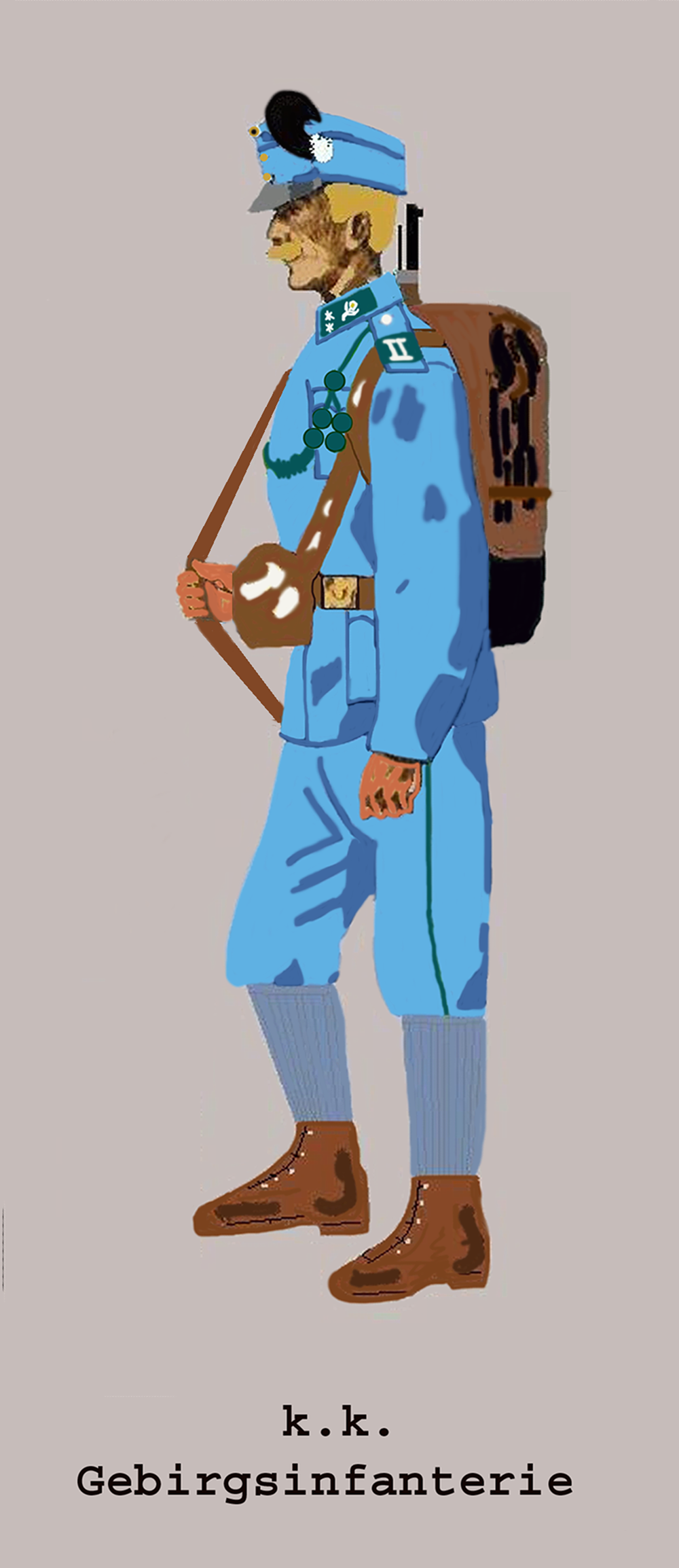 Austrian Mountain Infantry in Parade dress after 1907